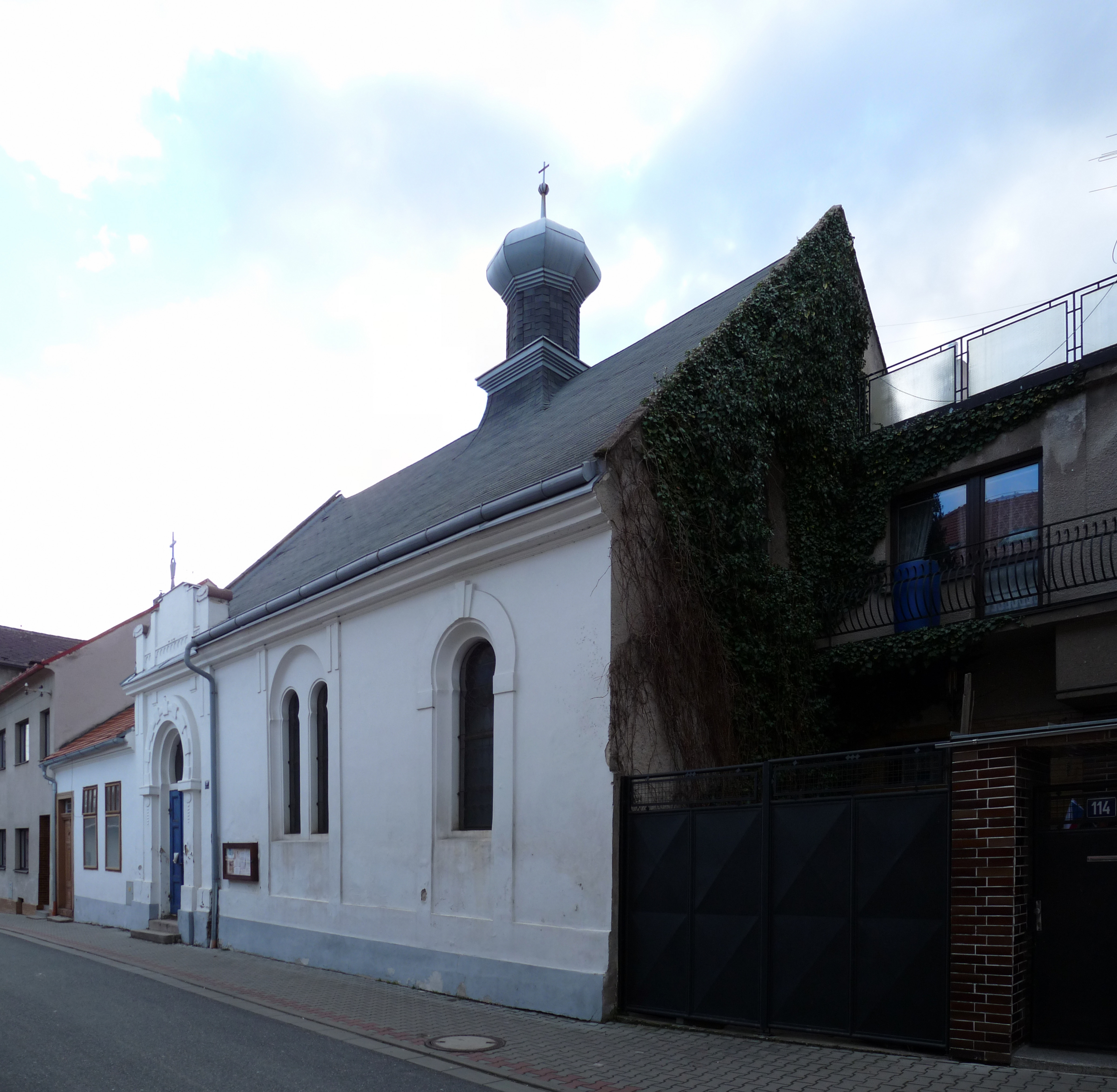 Former synagogue the town of Uhlířské Janovice, Kutná Hora District, Central Bohemian Region, Czech Republic, nowadays belonging to the Czechoslovak Hussite Church..